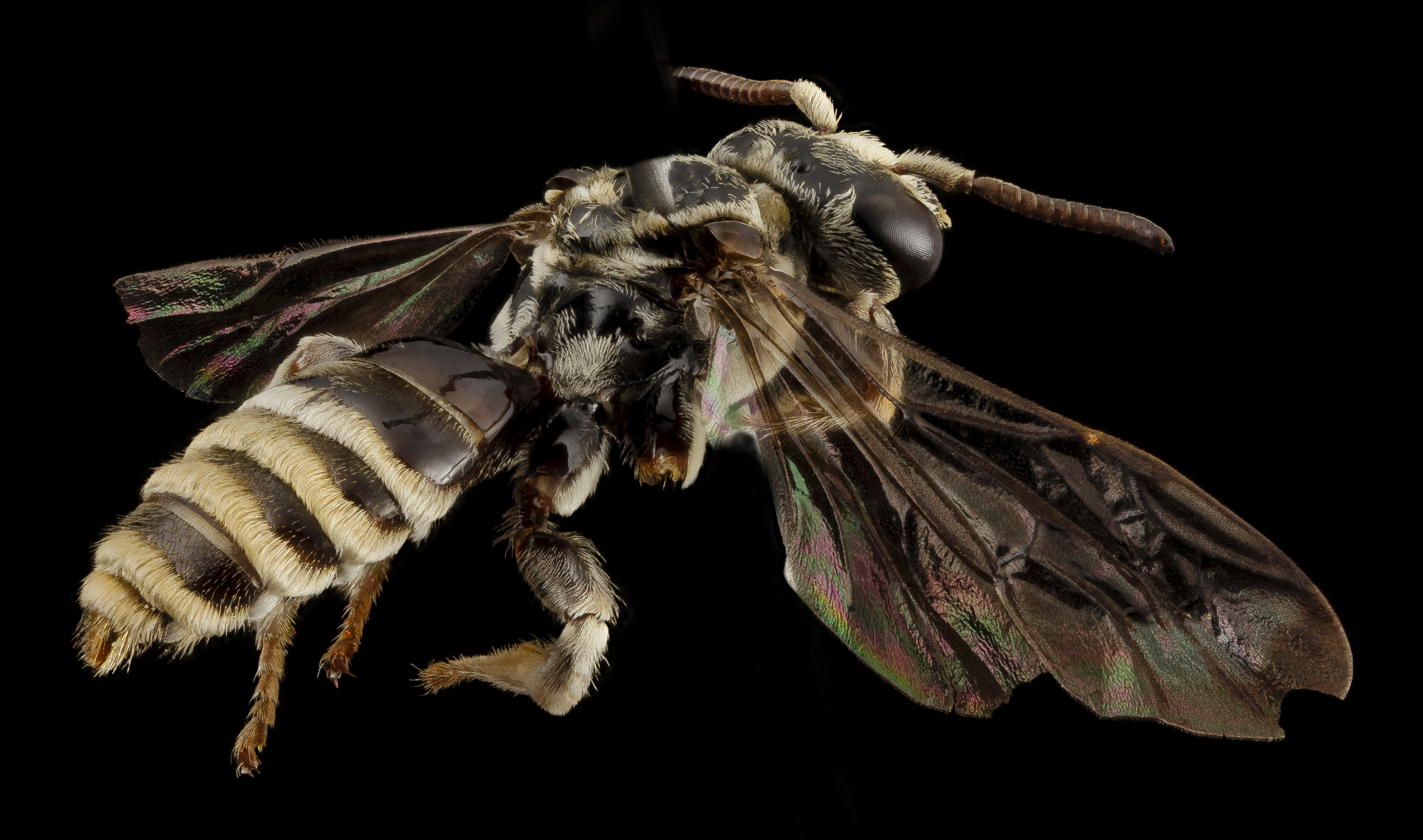 A nest parasite from the dry regions of Mexico and the Southwestern United States, this group infiltrates the communal nests of Exomalopsis to lay their eggs in the nest cells being built. Lovely combination of plush hair bands and shiny integument. 17:07, 17 November 2014 (UTC)17:07, 17 November 2014 (UTC) 0 17:07, 17 November 2014 (UTC)17:07, 17 November 2014 (UTC) All photographs are public domain, feel free to download and use as you wish. Photography Information: Canon Mark II 5D, Zerene Stacker, Stackshot Sled, 65mm Canon MP-E 1-5X macro lens, Twin Macro Flash in Styrofoam Cooler, F5.0, ISO 100, Shutter Speed 200 The murmuring of bees has ceased; But murmuring of some Posterior, prophetic, Has simultaneous come,-- The lower metres of the year, When nature's laugh is done,-- The Revelations of the book Whose Genesis is June. -Emily Dickinson Want some Useful Links to the Techniques We Use? Well now here you go Citizen: Basic USGSBIML set up: USGSBIML Photoshopping Technique: Note that we now have added using the burn tool at 50% opacity set to shadows to clean up the halos that bleed into the black background from "hot" color sections of the picture. PDF of Basic USGSBIML Photography Set Up: ftp://ftpext.usgs.gov/pub/er/md/laurel/Droege/How%20to%20Take%20MacroPhotographs%20of%20Insects%20BIML%20Lab2.pdf Google Hangout Demonstration of Techniques: or Excellent Technical Form on Stacking: Contact information: Sam Droege 301 497 5840